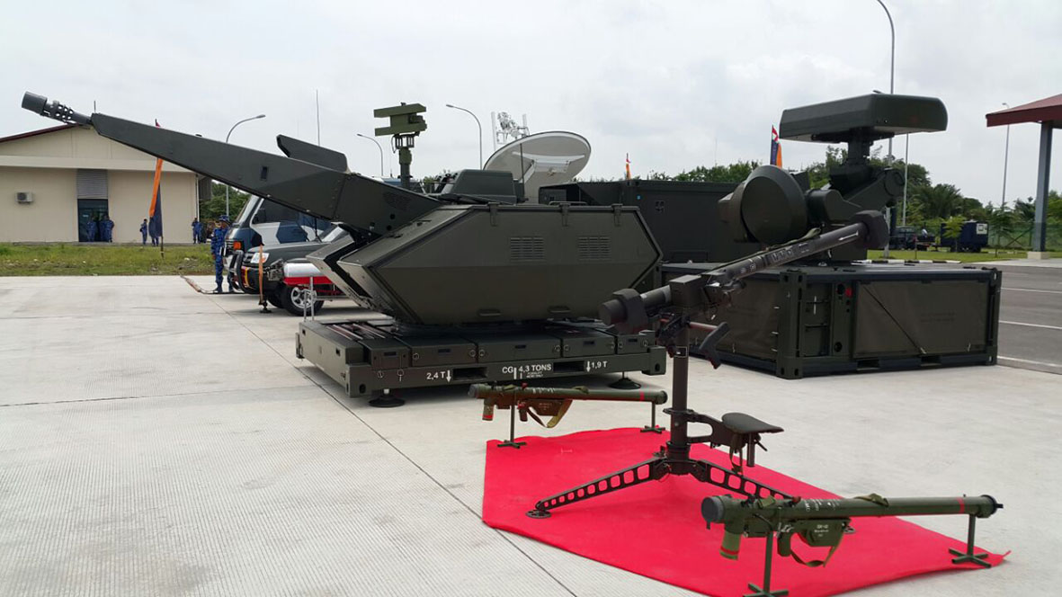 Several air defense systems of Indonesian air force. From the furthest back: 1. Mercedes-Benz MB800 C-MOV (Central Monitoring and Observation Vehicle) (Blue & white truck) 2. Dongfeng Rich TH-5711 Smart Hunter Radar (Integrated with QW-3 battery) (olive drab SUV) 3. NRIST (Nanjing Research Institute of Simulation Technology) S-70 Target Drone (White & red cylinder on a pedestal) 4. Oerlikon Skyshield System (Gun, Radar & Command Post) 5. QW-3 MANPADS (two unit on red carpet, mounted on short pedestal) 6. LIG Nex1 Chiron MANPADS (on red carpet, between two QW-3, mounted on tall pedestal) Displayed during 2016 Angkasa Yudha Exercise at Natuna island.